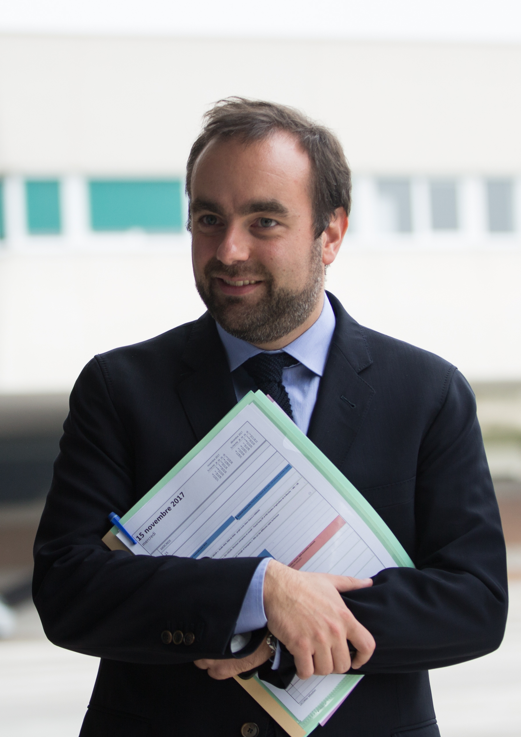 From left to right: François Bouchet, Sébastien Lecornu et Richard Lizurey.